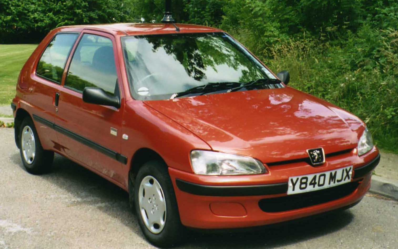 Peugeot 106 1.1 Independence taken at Oulton Hall, Leeds